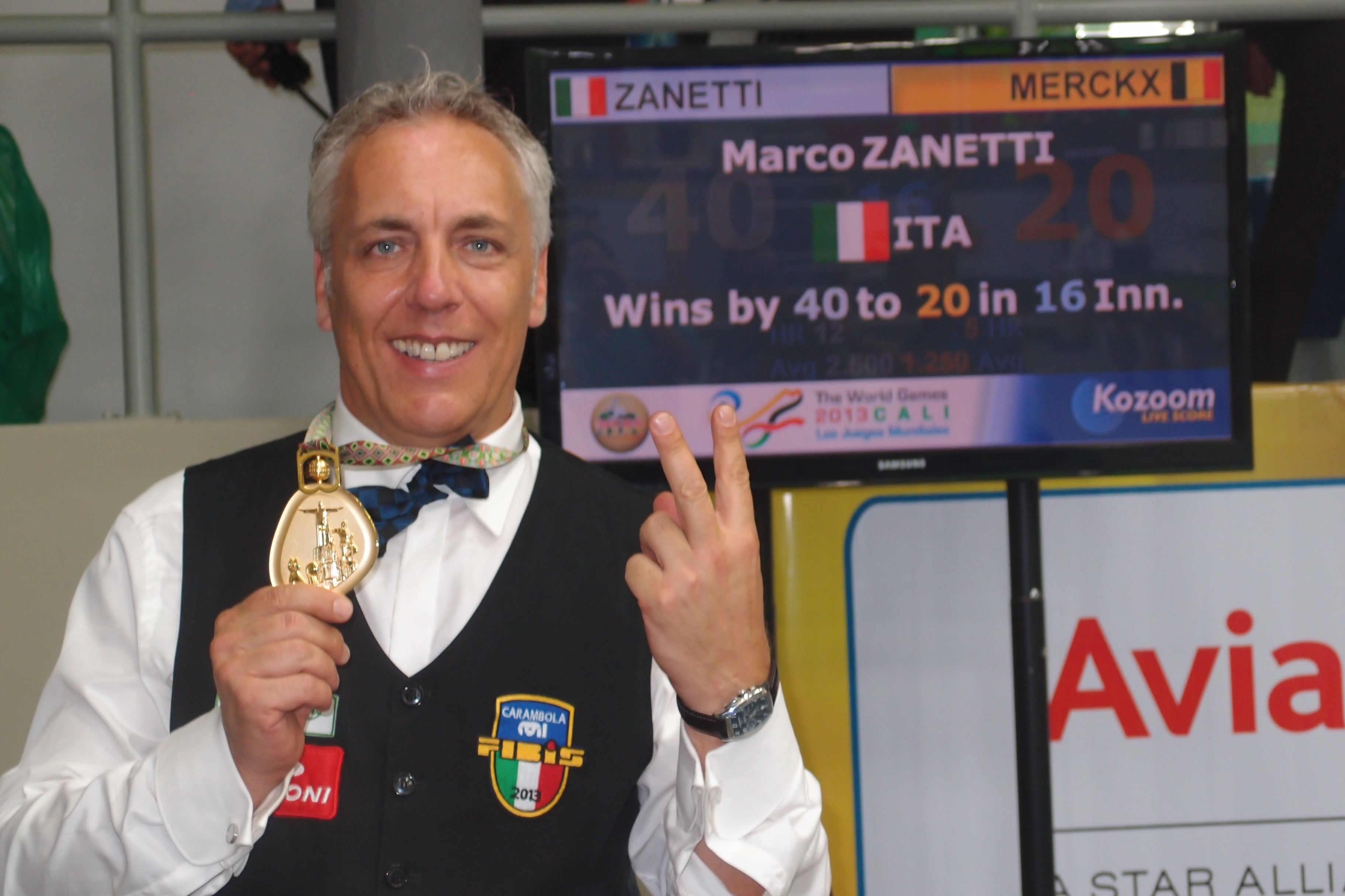 Zanetti with his gold medal in 3-cushion at the 2013 World Games in Cali, Columbia.